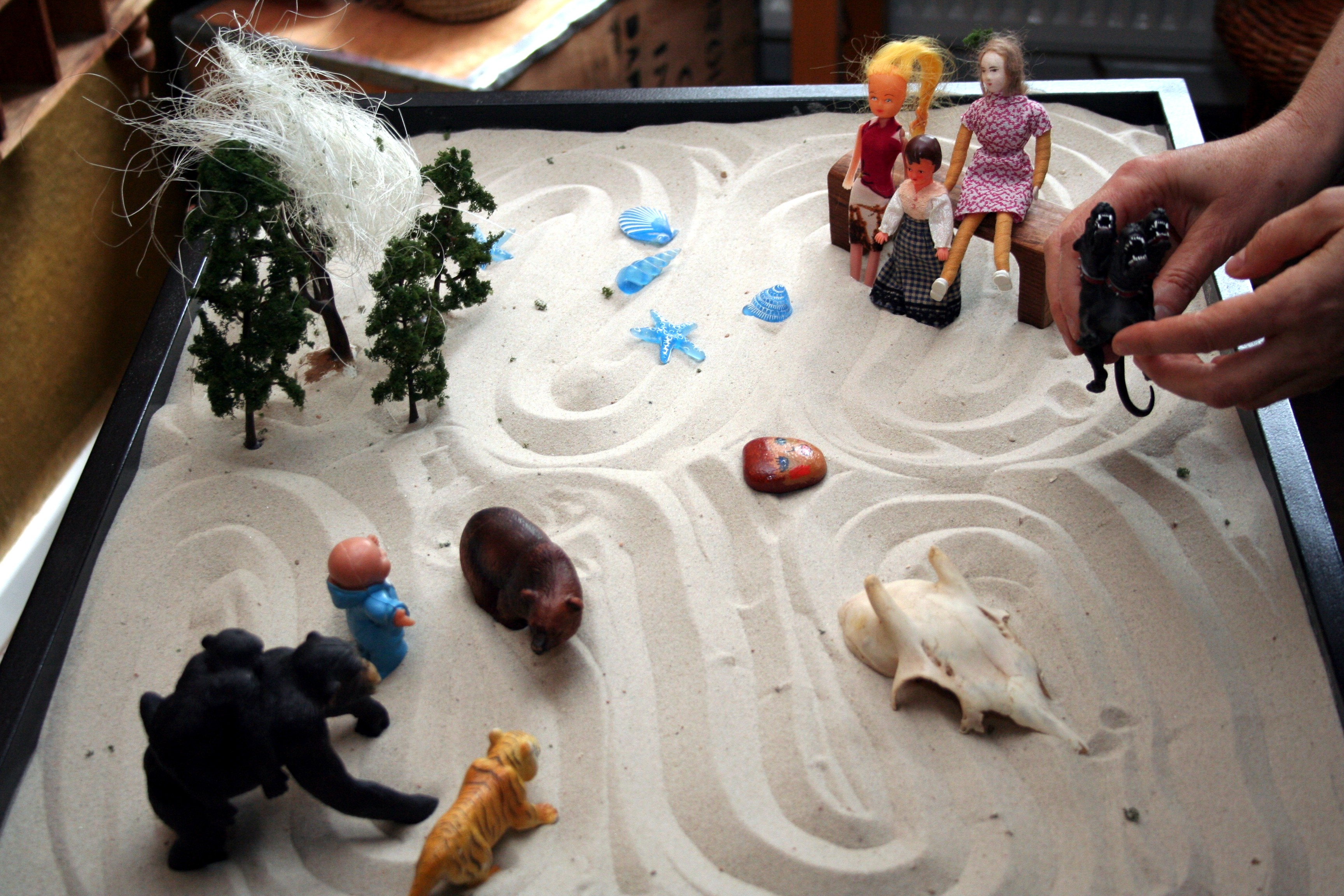 Sand Play Therapy / Dora M. Kalff